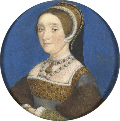 A Portrait Miniature thought to be Katherine Howard, circa 1540, by Hans Holbein the Younger